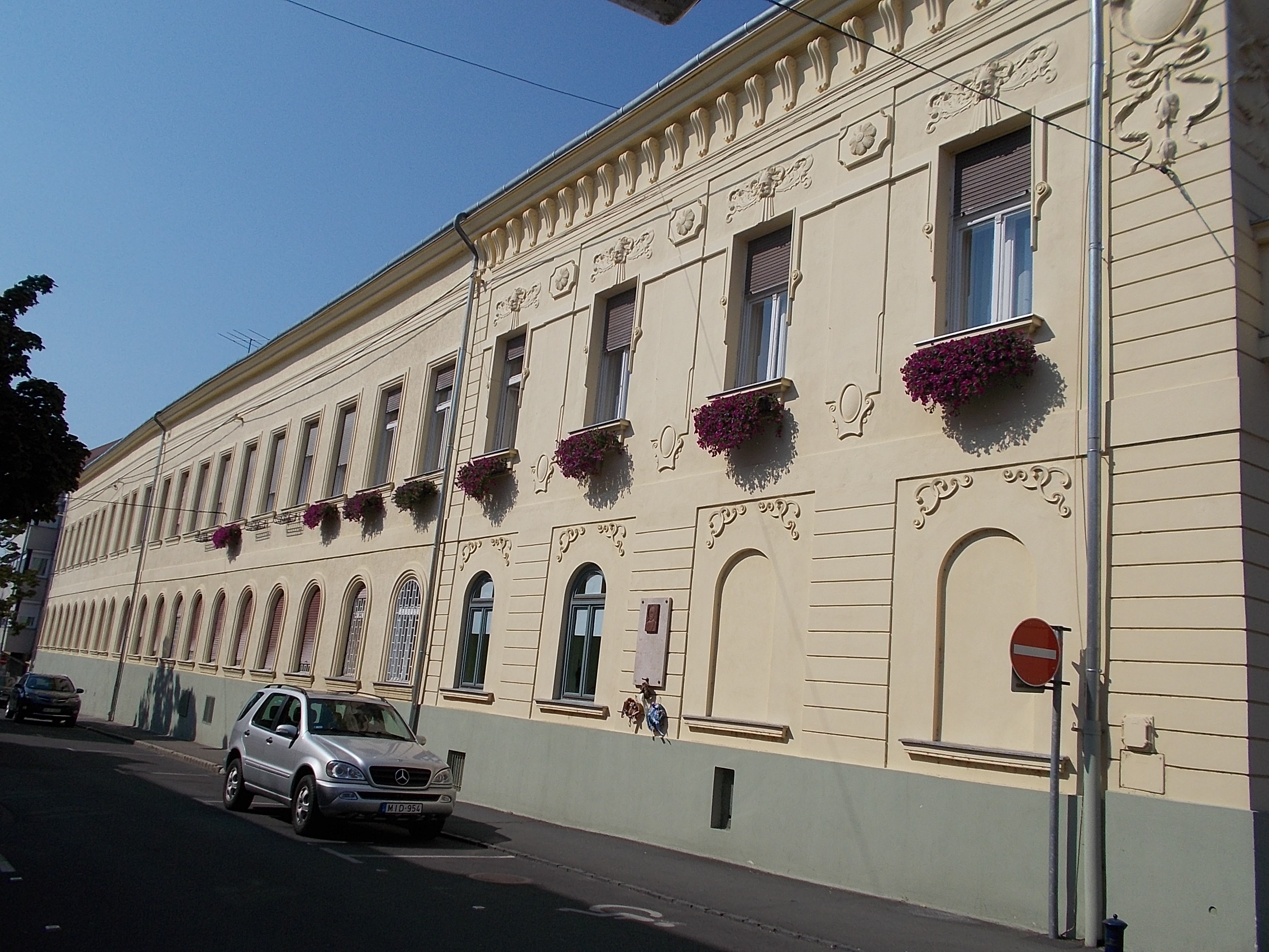 Gyöngyös Town Hall. Listed 1628. Puky Árpád street facade. - Heves County, Hungary